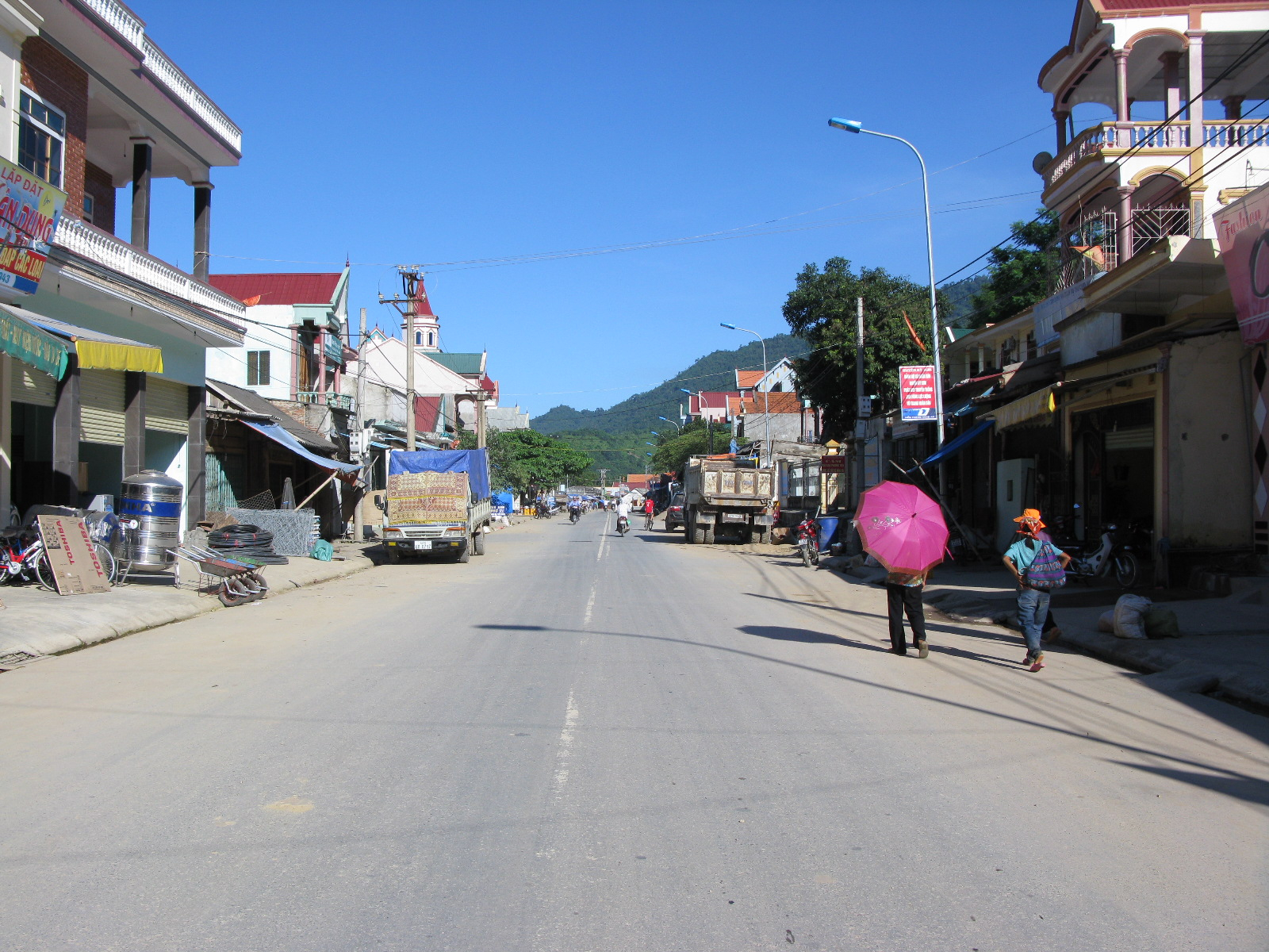 Muong Xen Town, Ky Son District, Nghe An Province, Vietnam.